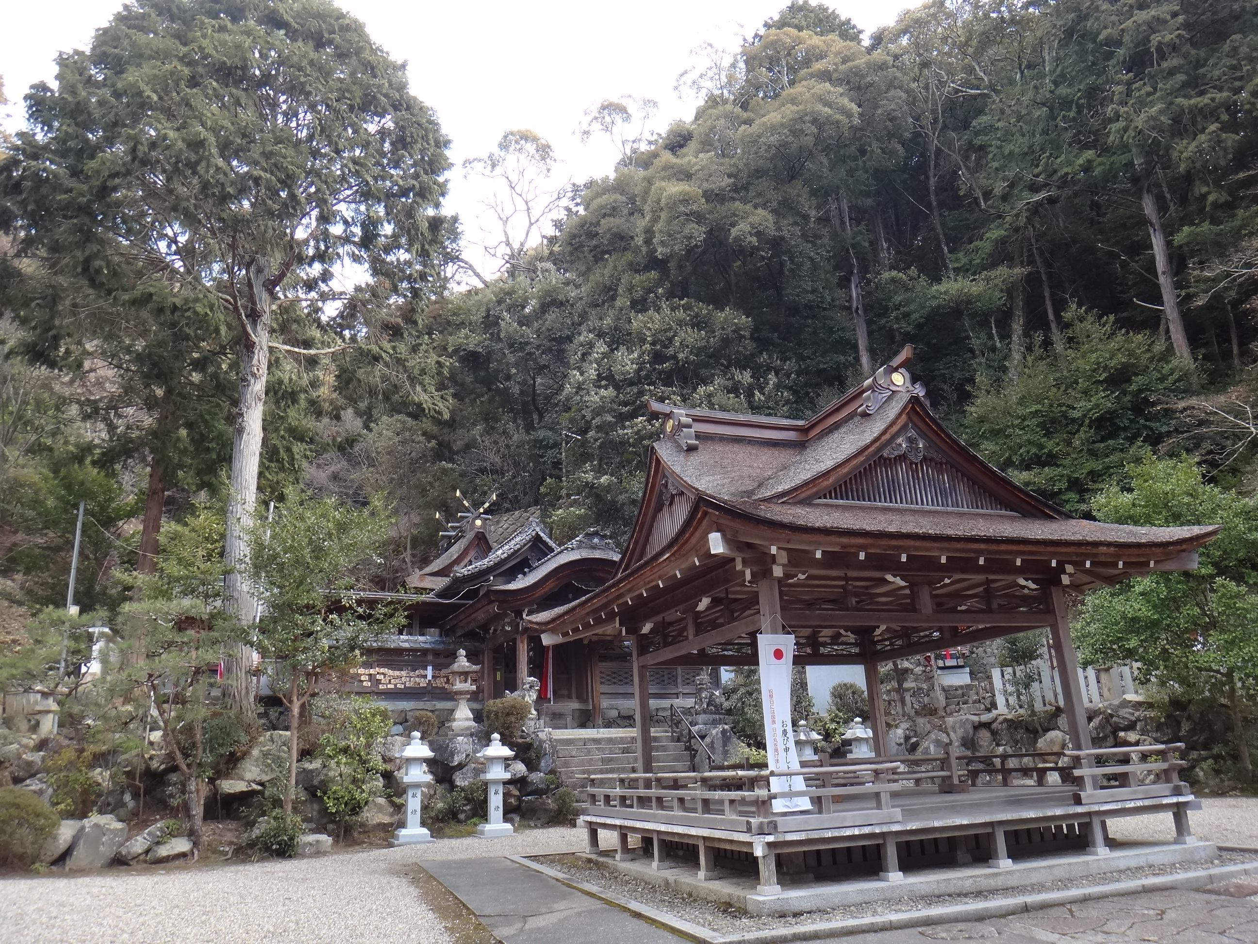 Tamatsu Oka Shrine of Ide-cho